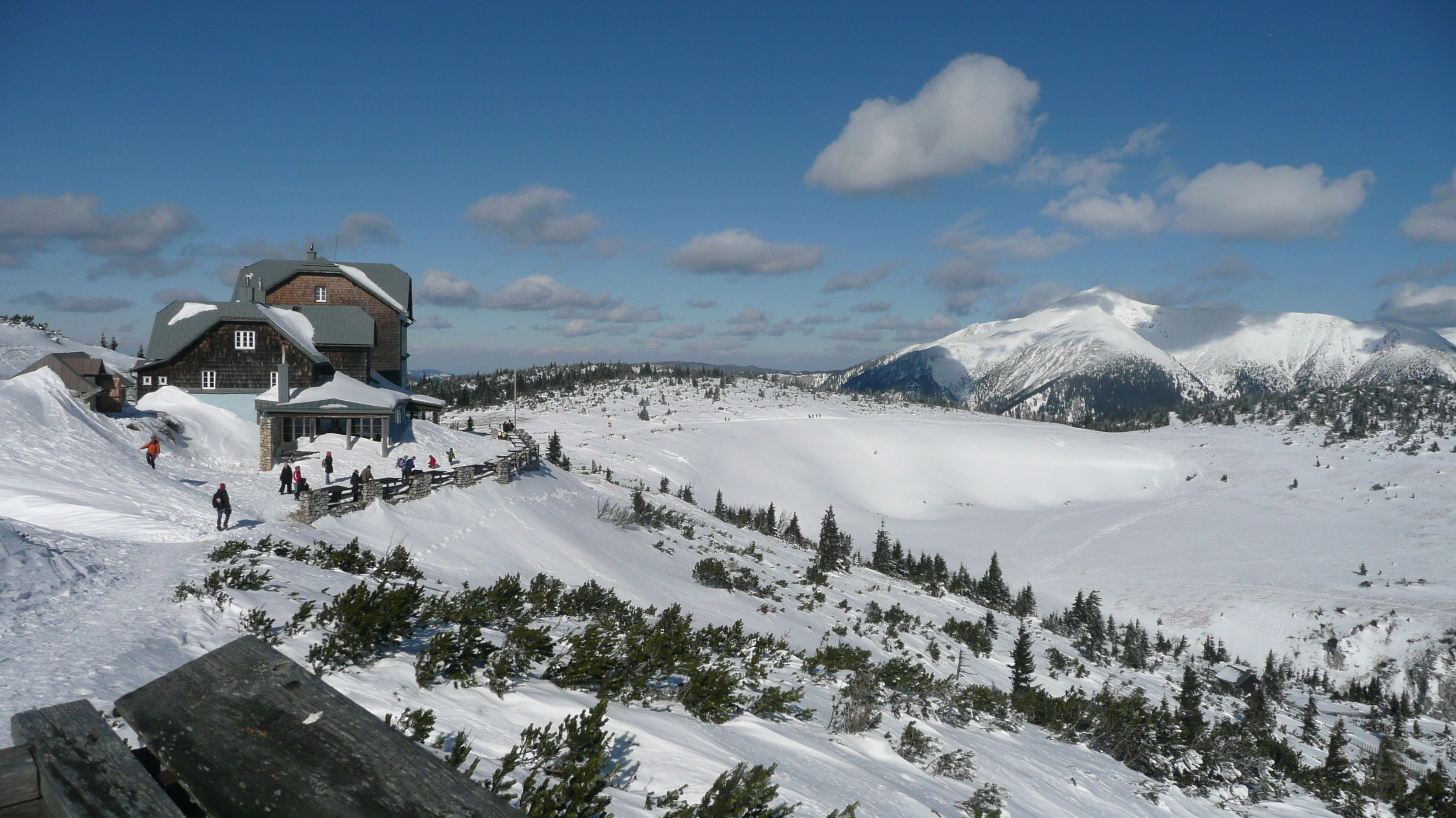 Otto house at Raxalpe with view on snow mountain